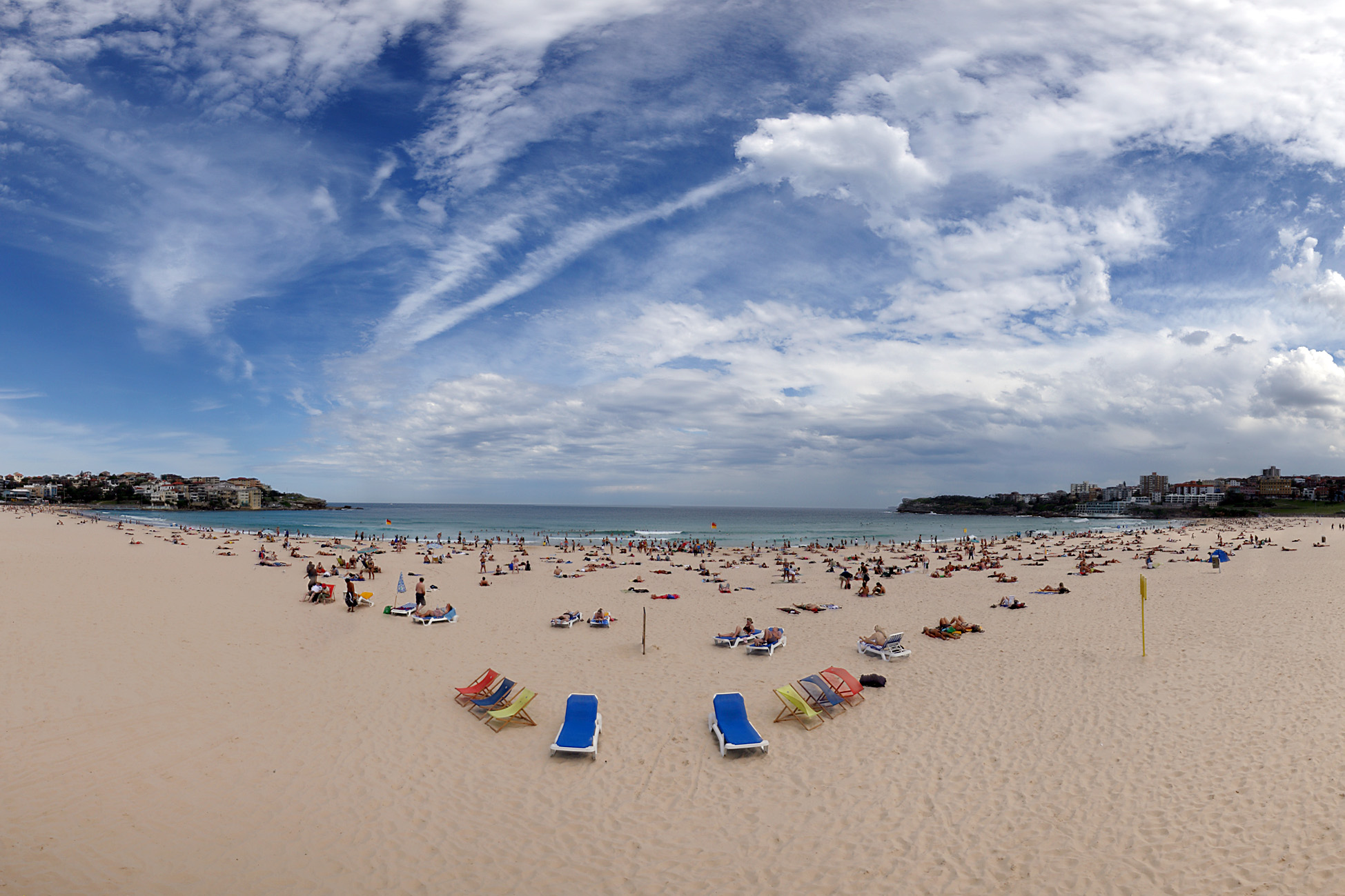 Bondi Beach, NSW, Australia